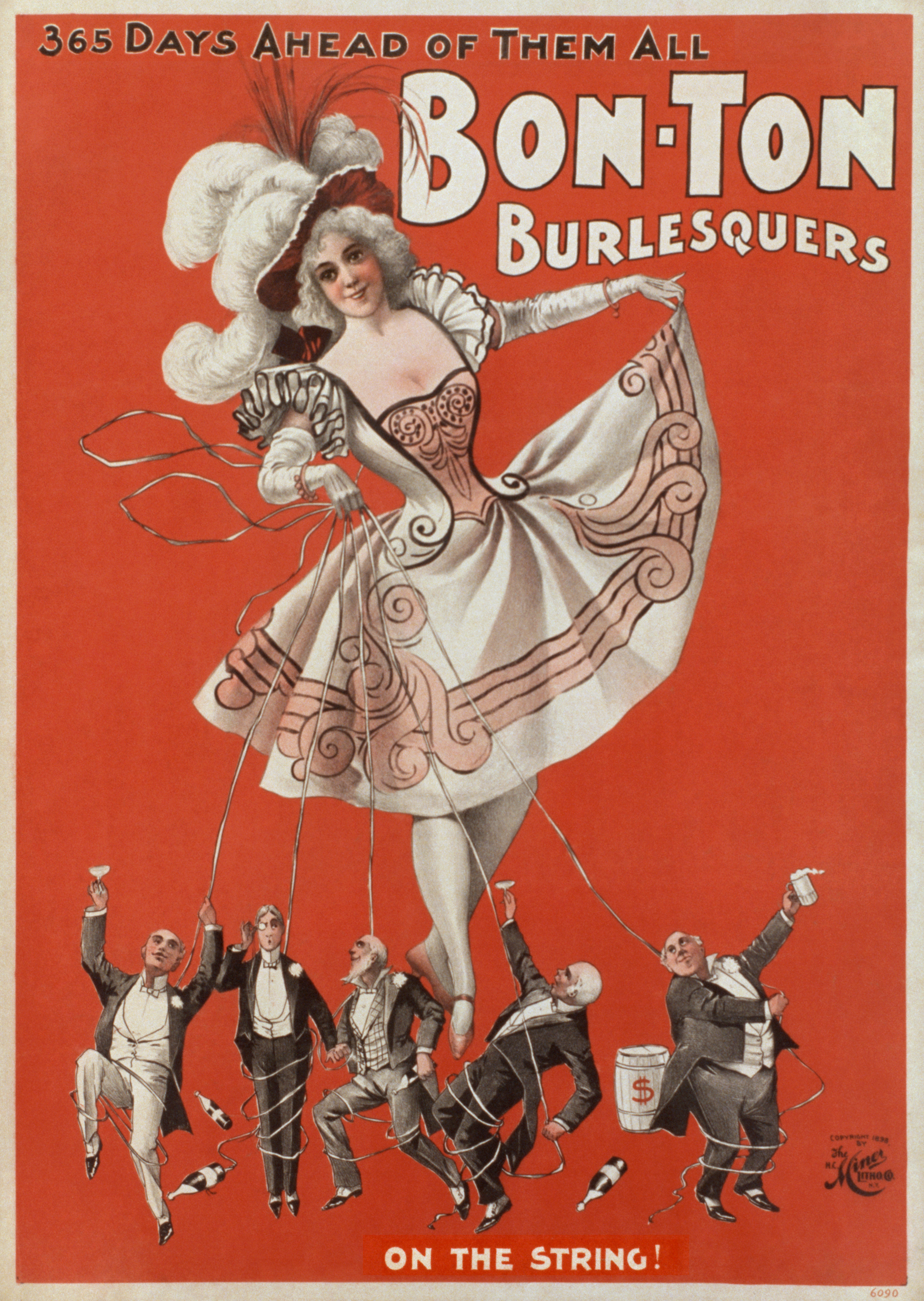 "Bon Ton Burlesquers - 365 days ahead of them all." Poster of U.S. burlesque show, 1898, showing a woman in outfit with low neckline and short skirts holding a number of upper-class men "On the string". Color lithograph